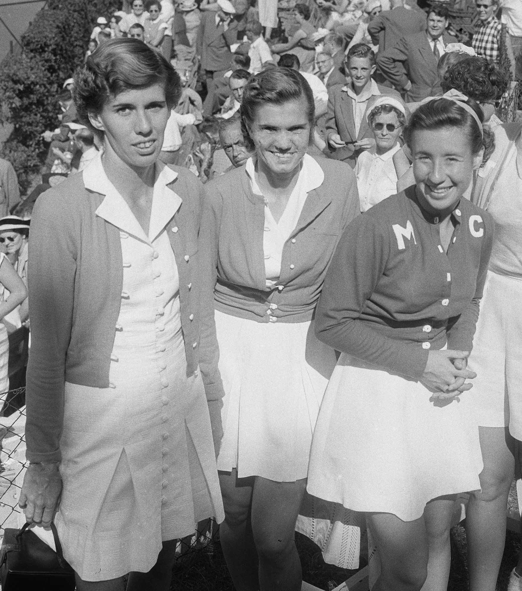 From left to right: the American tennis players Doris Hart, Shirley Fry (not yet Irvin) and Maureen Connolly at a Noordwijk tennis event (The Netherlands, 1953).